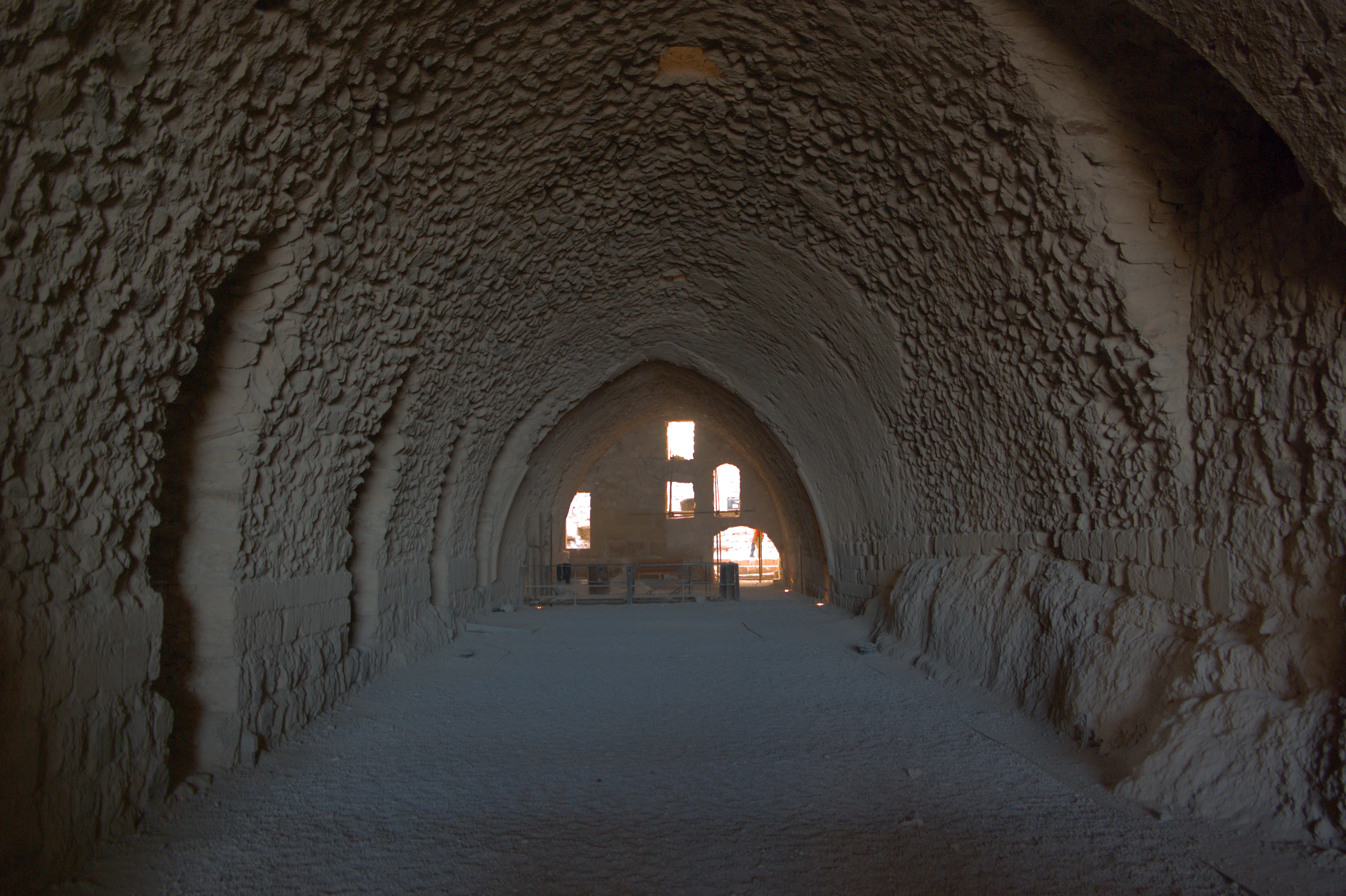 Al Karak